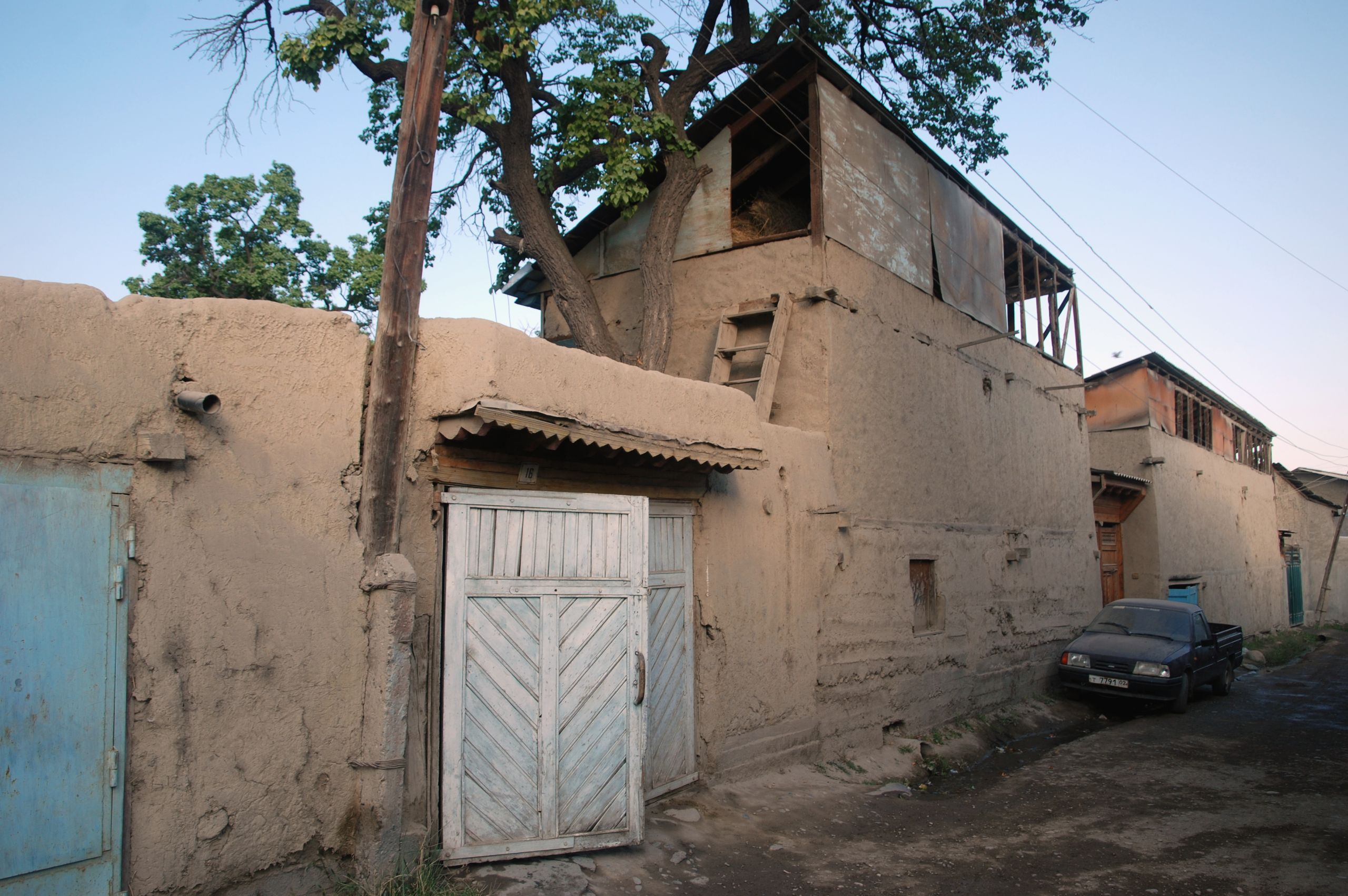 Chorku, Isfara district